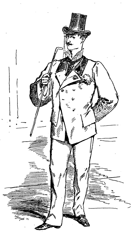 Le gommeux. (A type of French dandy.)